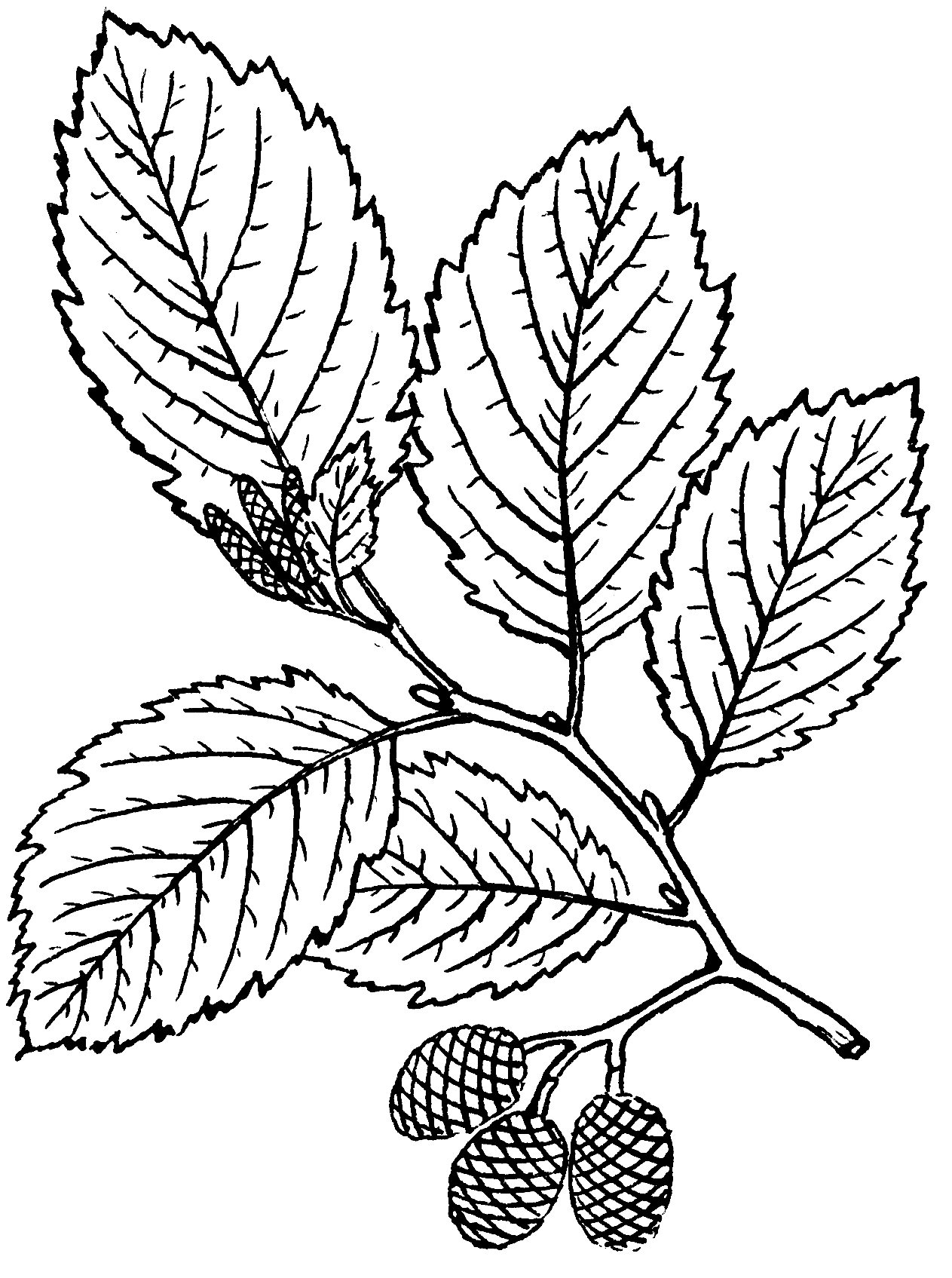 An illustration of alder leaves.